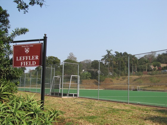 Leffler Field Astro Turf